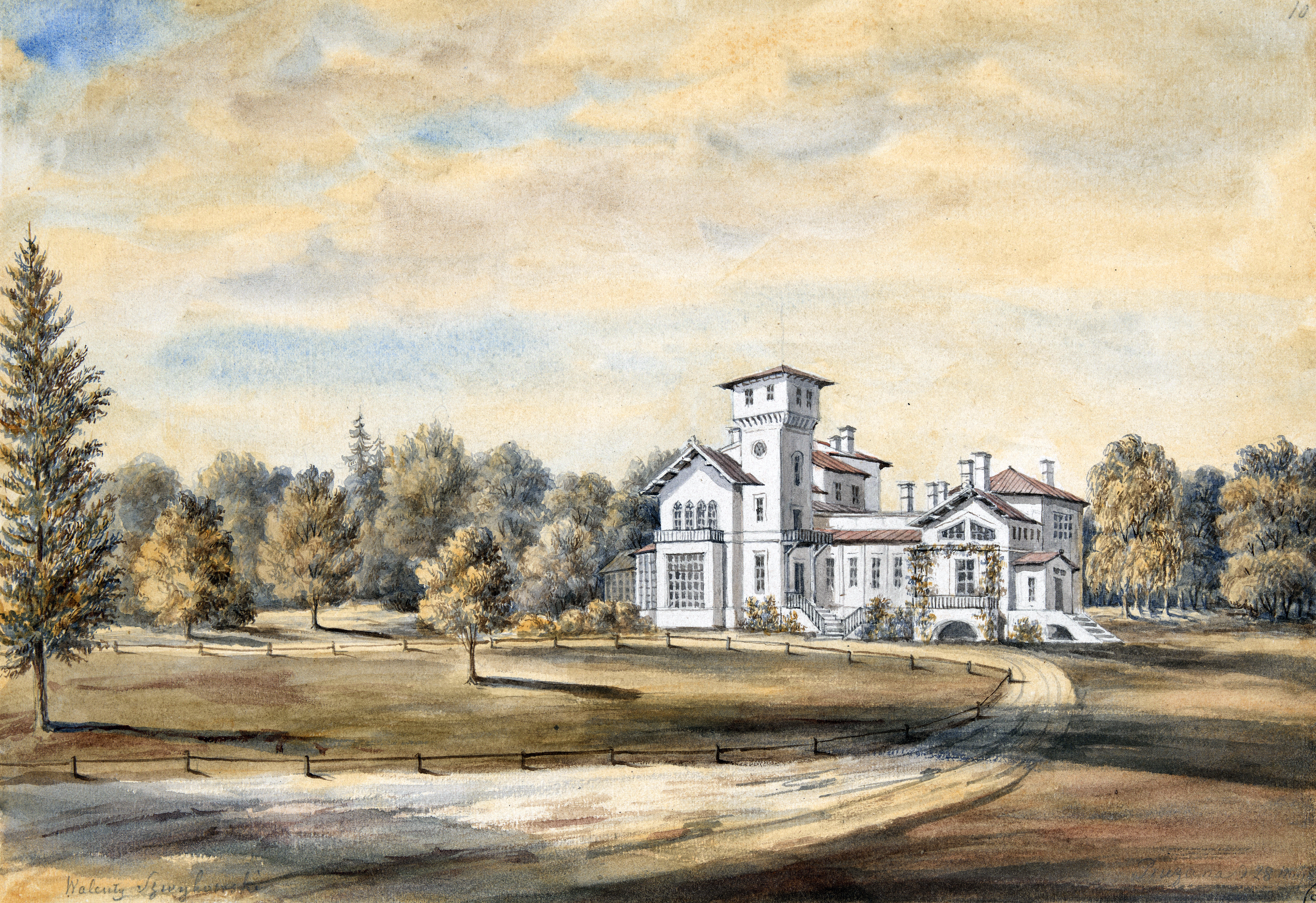 Pružany, Napoleon Orda